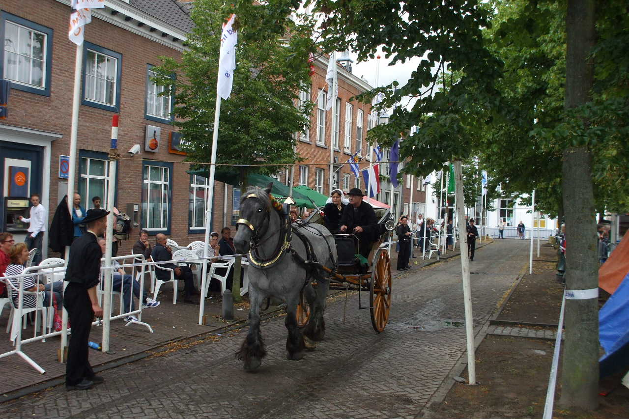 Folk day